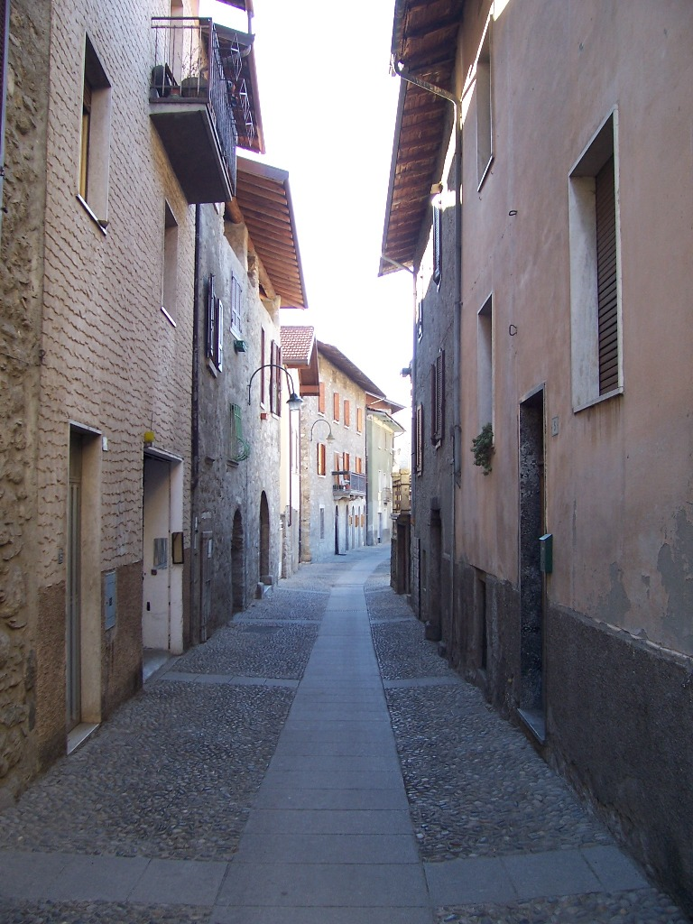 Via Piana, Nadro, Val Camonica, Italia